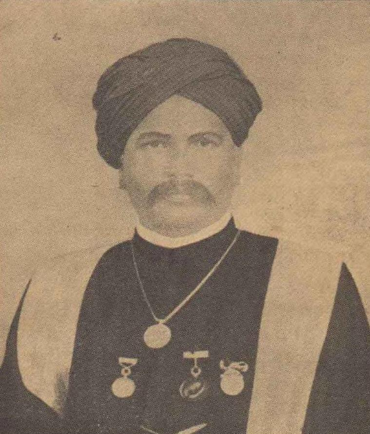 Bidaram Krishnappa was a musician and composer of Carnatic Indian music in the court of King Chamaraja Wodeyar IX and King Krishna Raja Wadiyar IV of the Kingdom of Mysore.